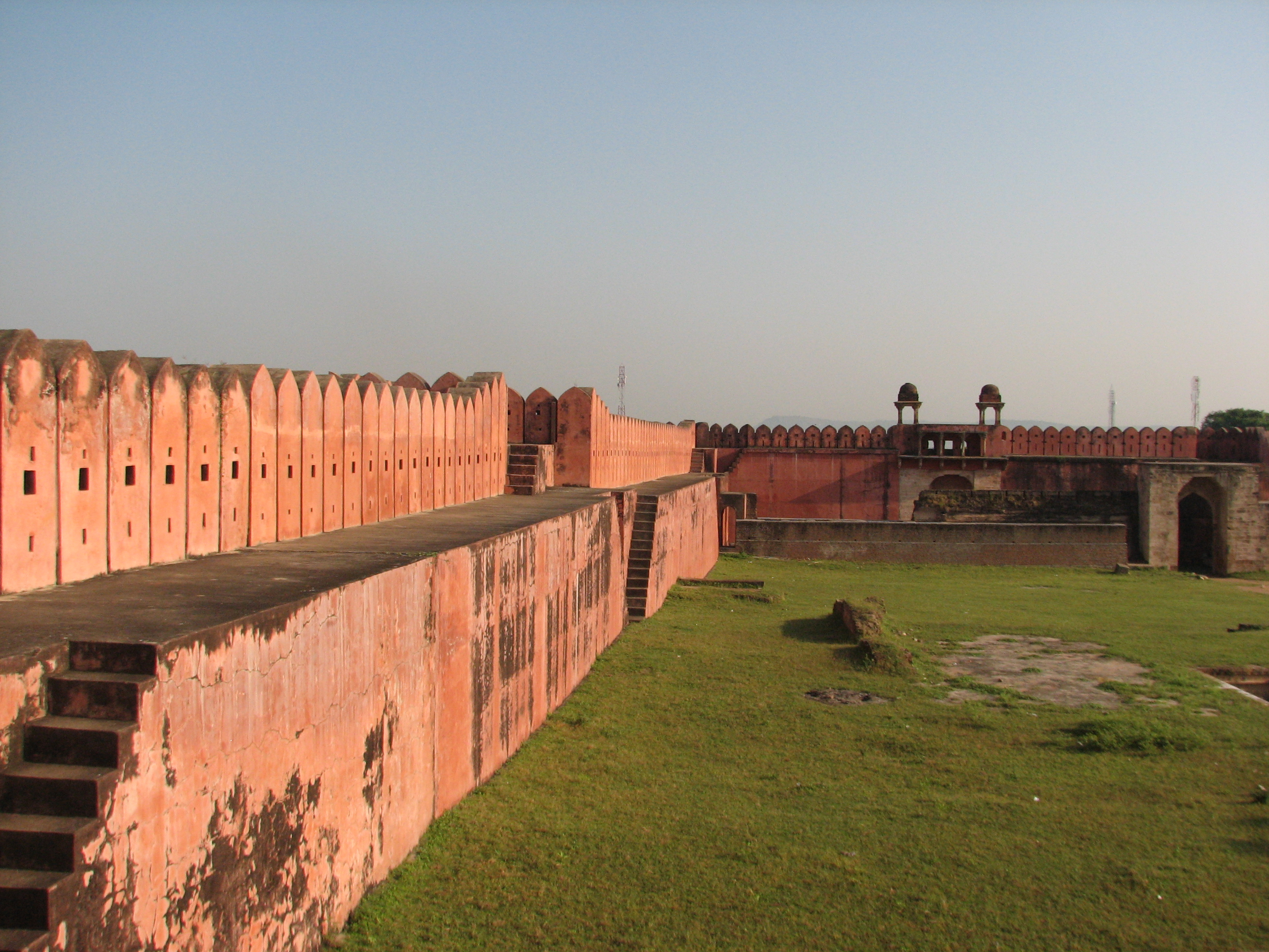 An inside view of the Nagardhan Fort, looking towards main gate.